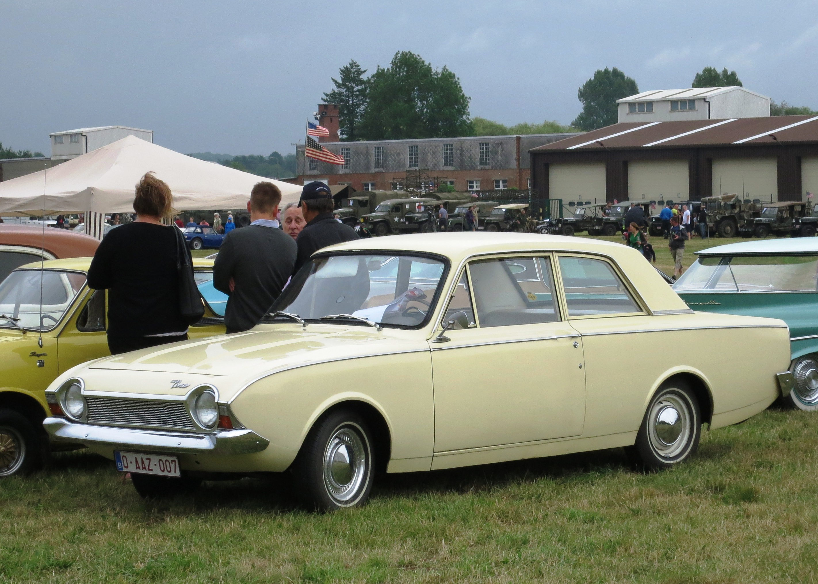 Ford Consul Corsair 2-door In the UK there was vanishingly little demand for 2-door saloons/sedans of this size and the 2-door Corsair was discontinued after a couple of years. There was some limited demand for the 2-door cars in Benelux, however.